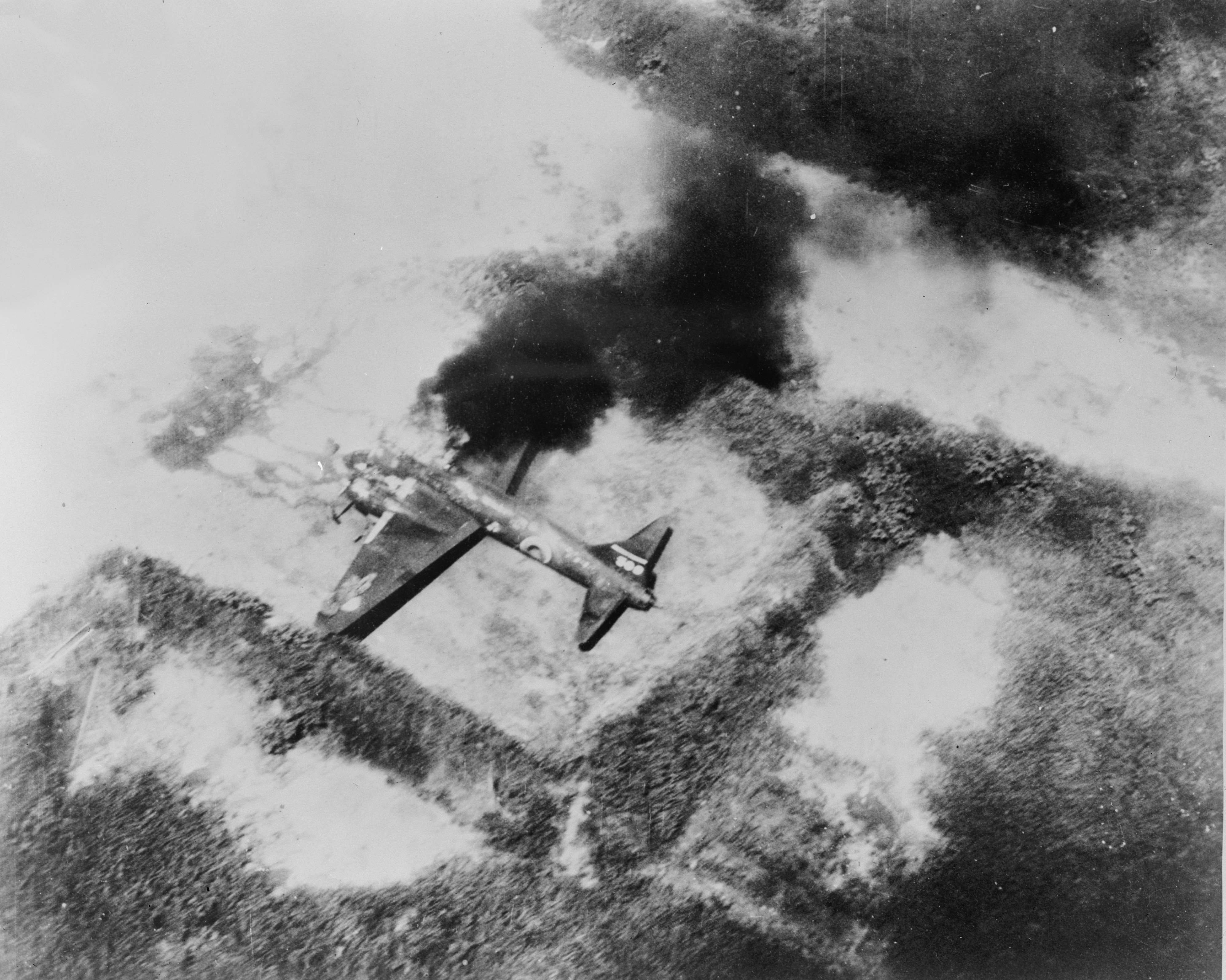 A burning Japanese Mitsubishi G4M (Allied code Betty) bomber buring during an attack by US planes, probably in the southwest Pacific, ca. 1943-1945.